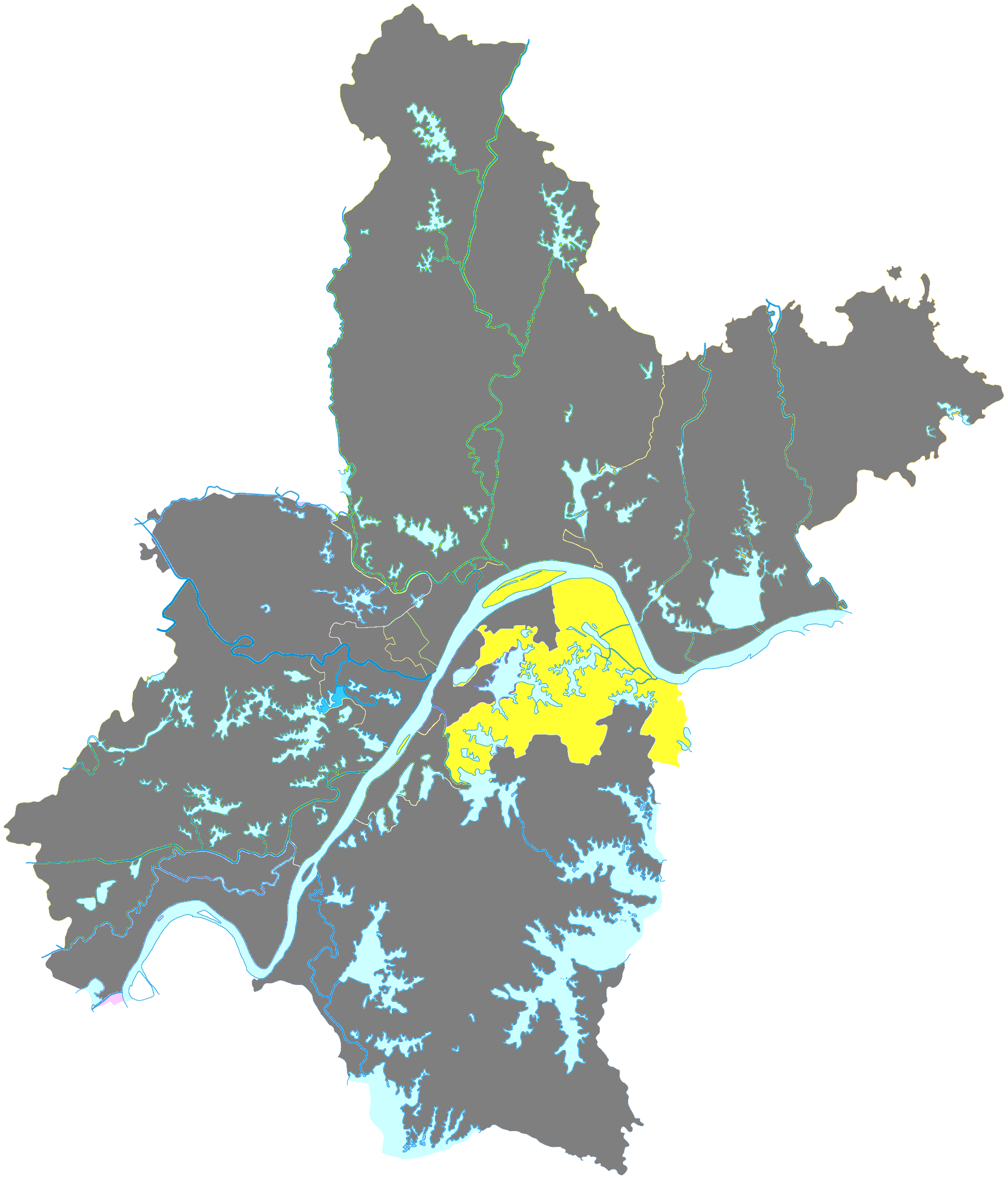 ChinaWuhanHongshan